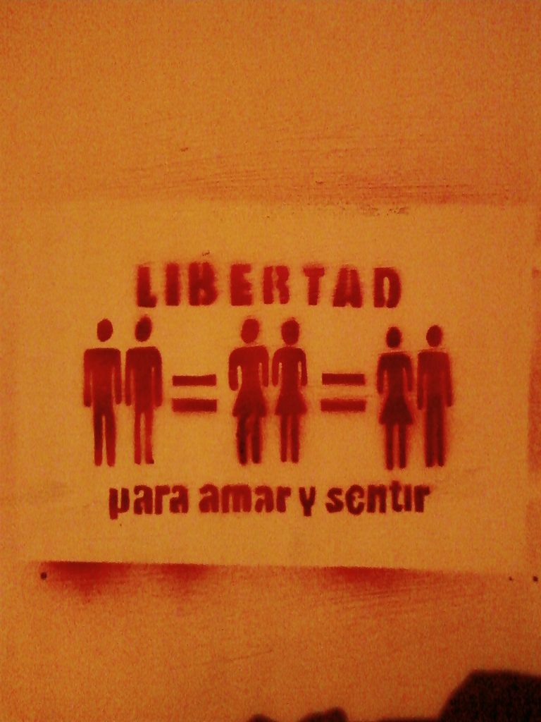 Graffiti in Málaga, Spain